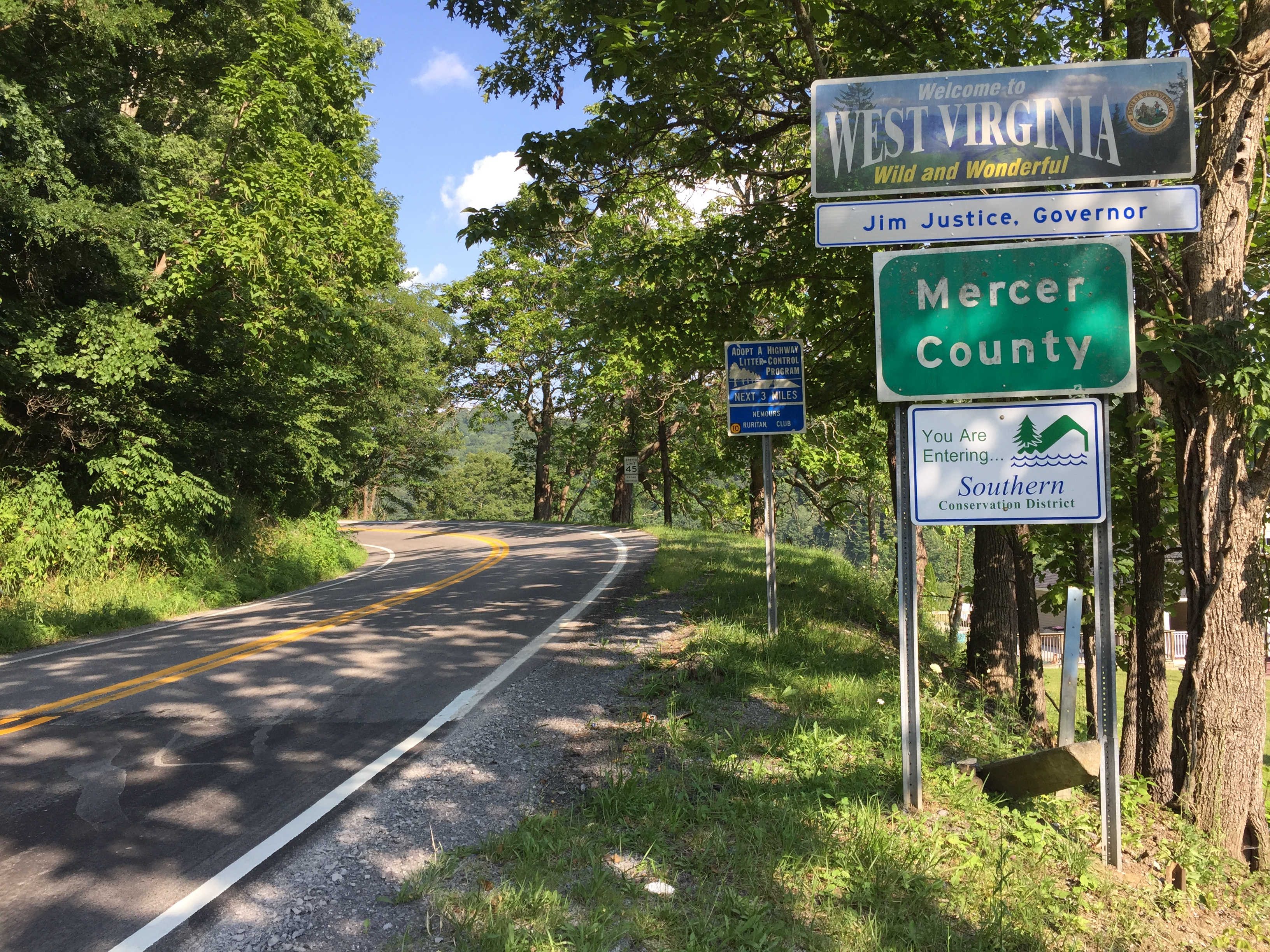 View west along Virginia State Route 102/West Virginia State Route 102 as it crosses from Falls Mills, Tazewell County, Virginia into Nemours, Mercer County, West Virginia